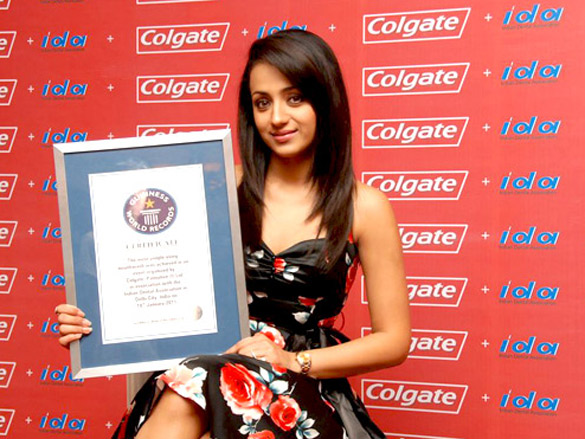 Trisha Krishnan at Guinness World Records certificate for Colgate and IDA